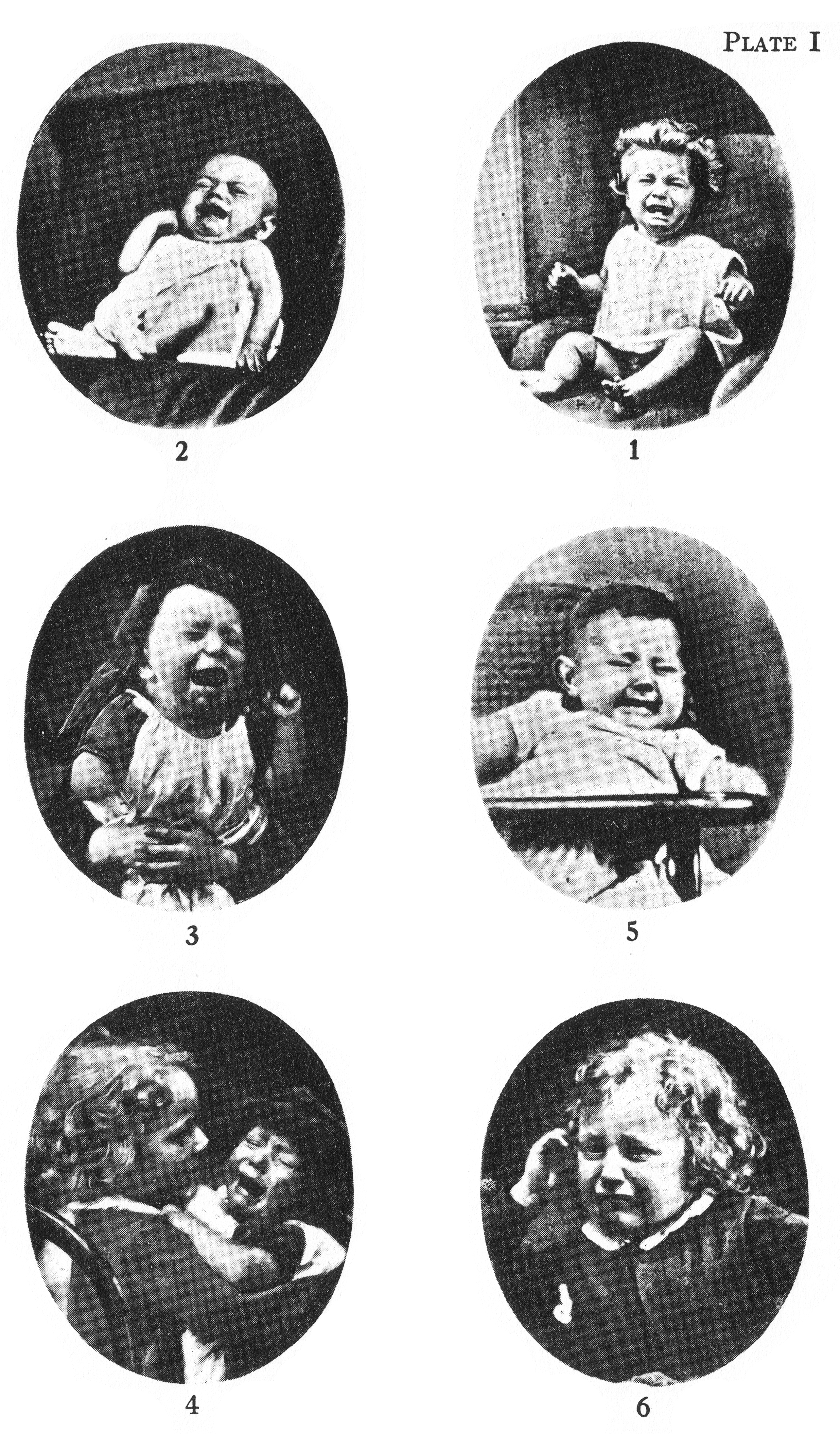 Plate I from Charles Darwin's The Expression of the Emotions in Man and Animals. From Chapter VI: SPECIAL EXPRESSIONS OF MAN: SUFFERING AND WEEPING.